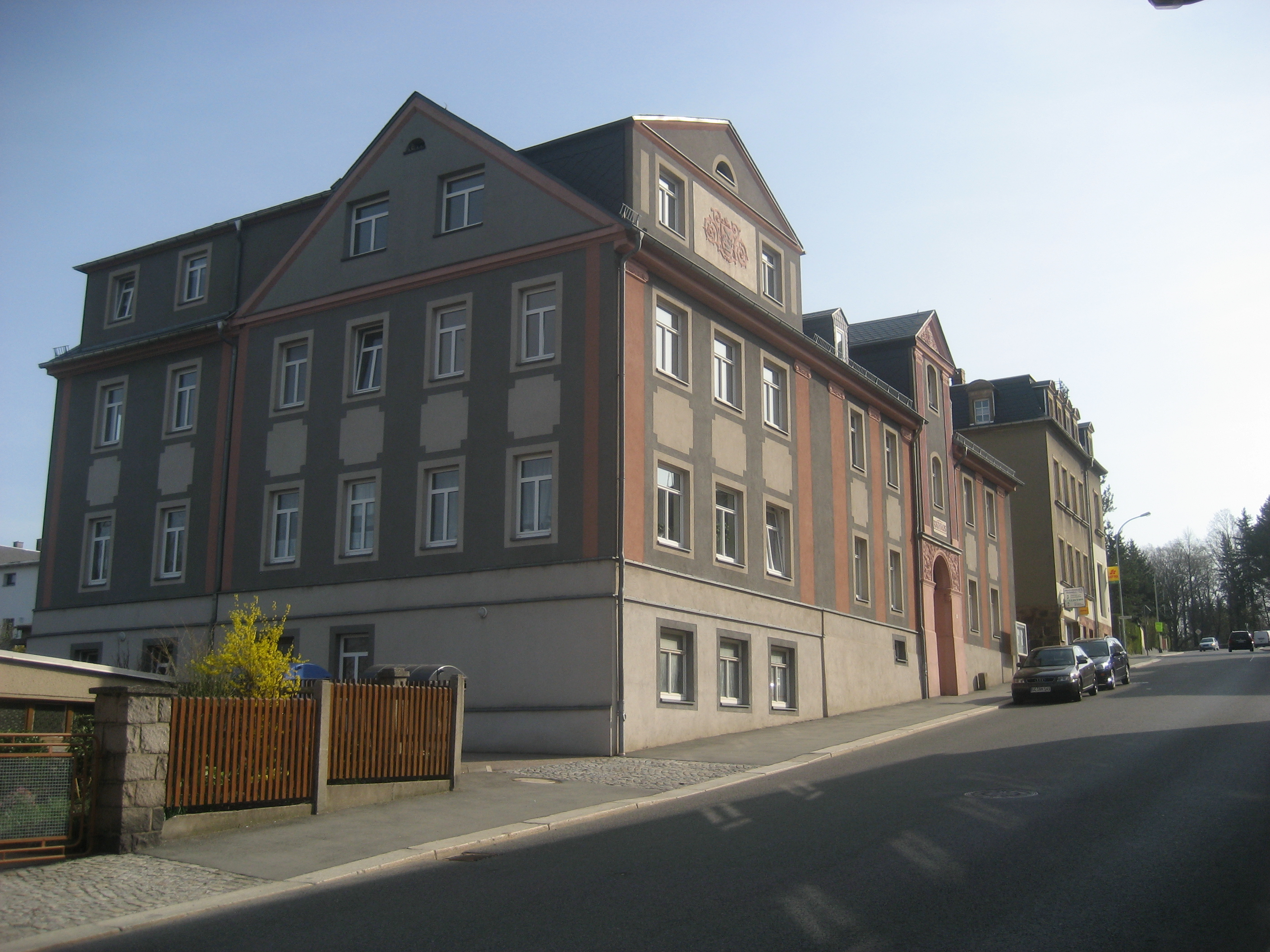 Town hall Oberfrohna (Limbach-Oberfrohna)